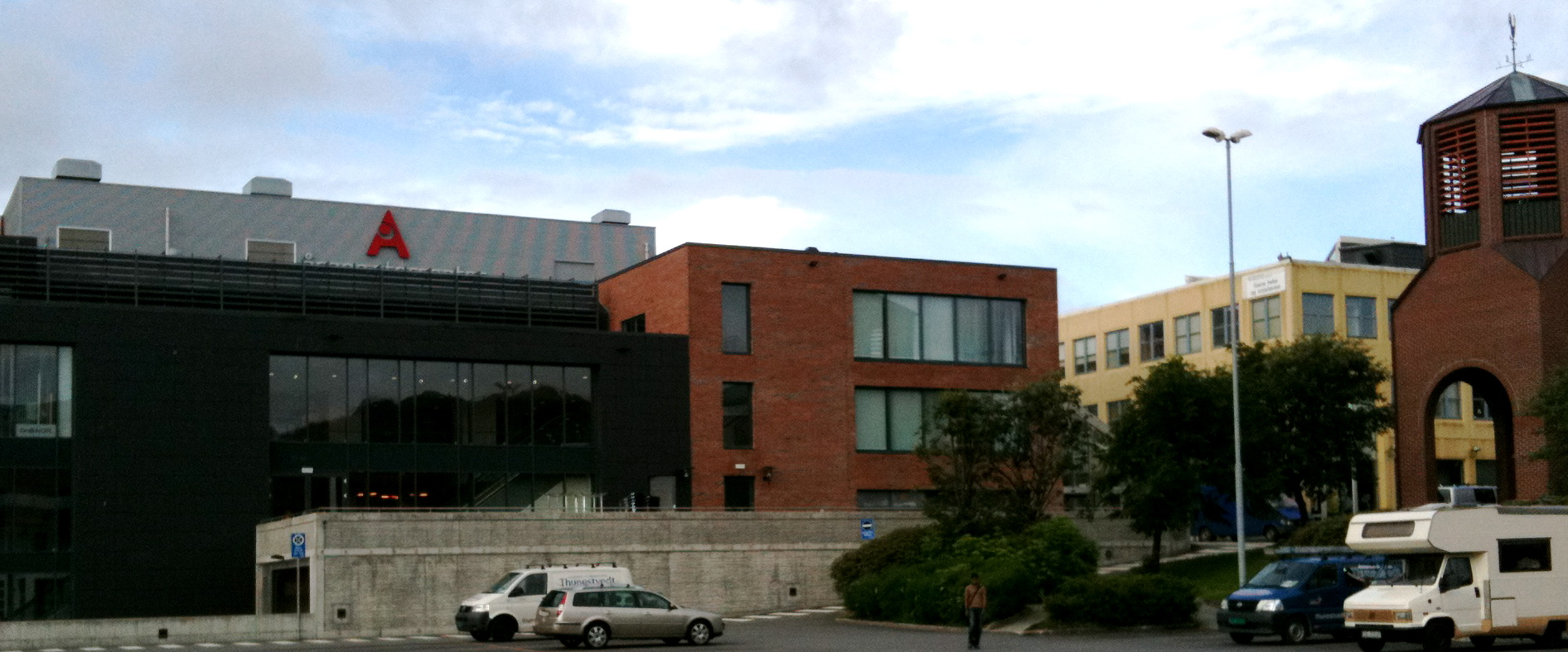 Åsane Senter a shopping mall in Bergen, Norway